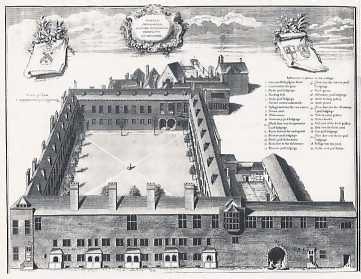 Engraving of Gresham College in the City of London, looking east at the front onto Old Broad Street